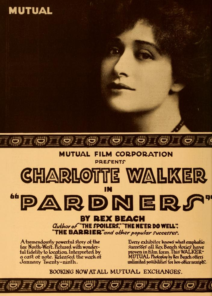 Advertisement in Moving Picture World for the film Pardners (1917).